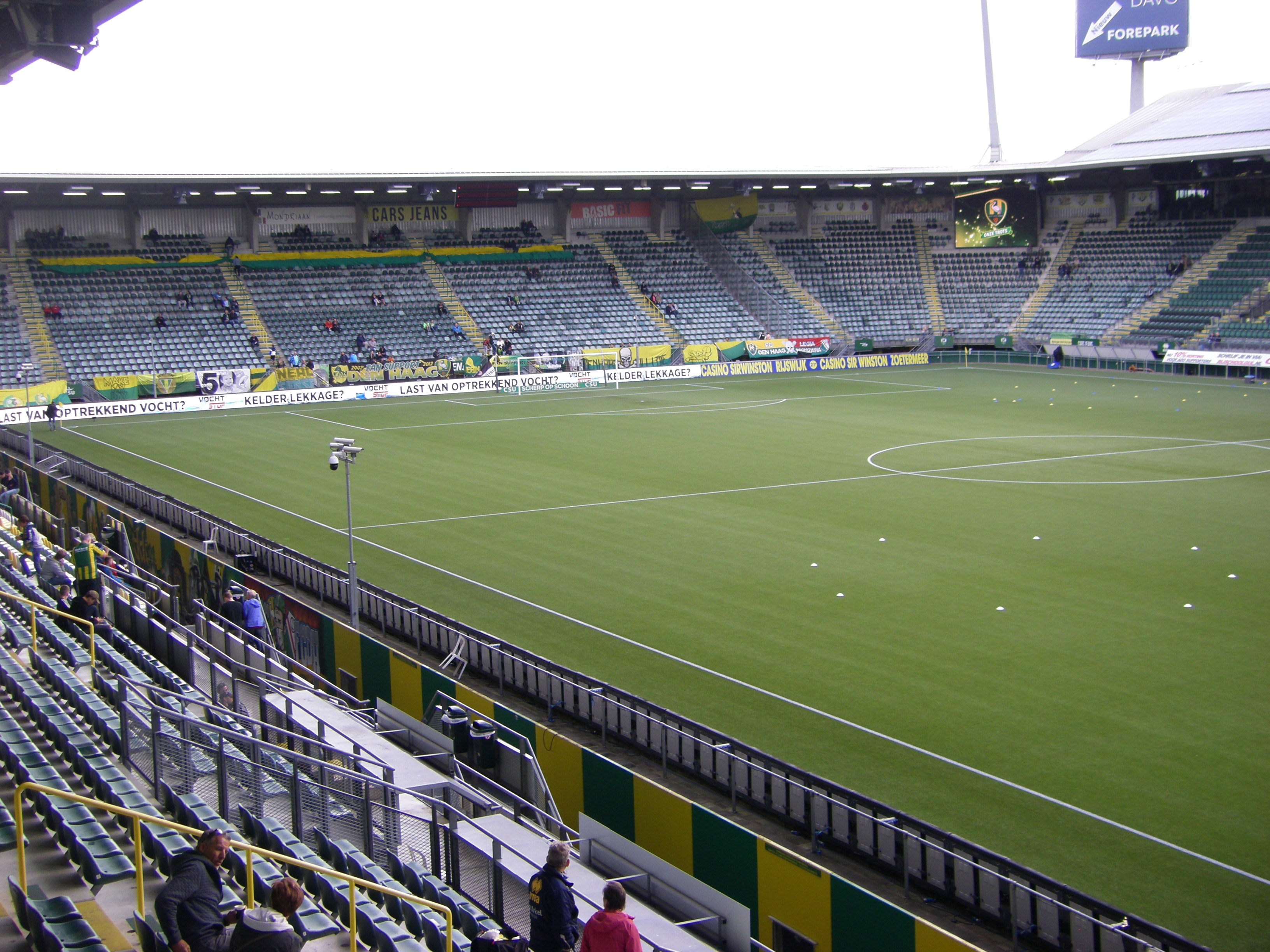 Inside the Cars Jeans Stadium, The Hague